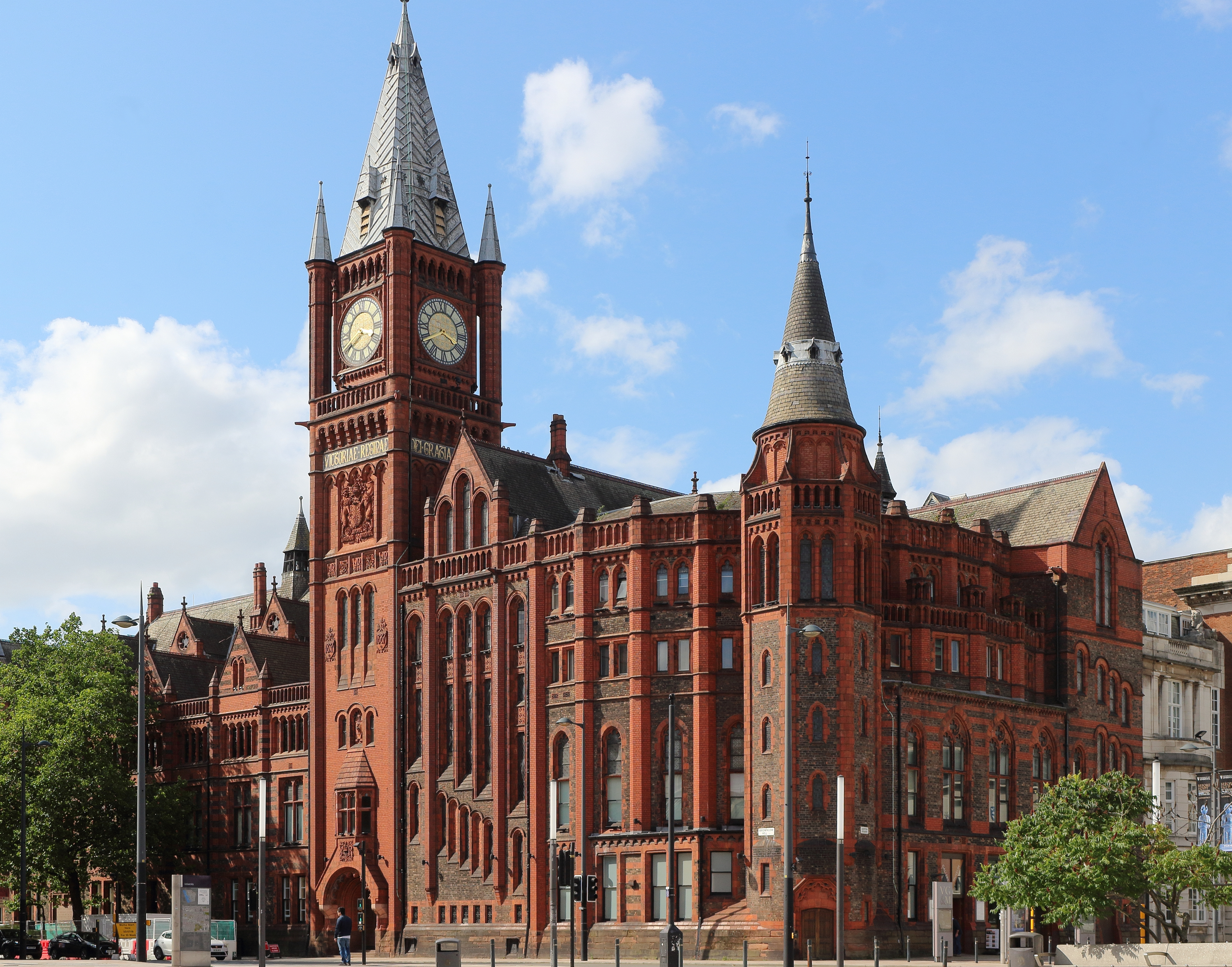 Across the plaza from the corner of the Reilly Building